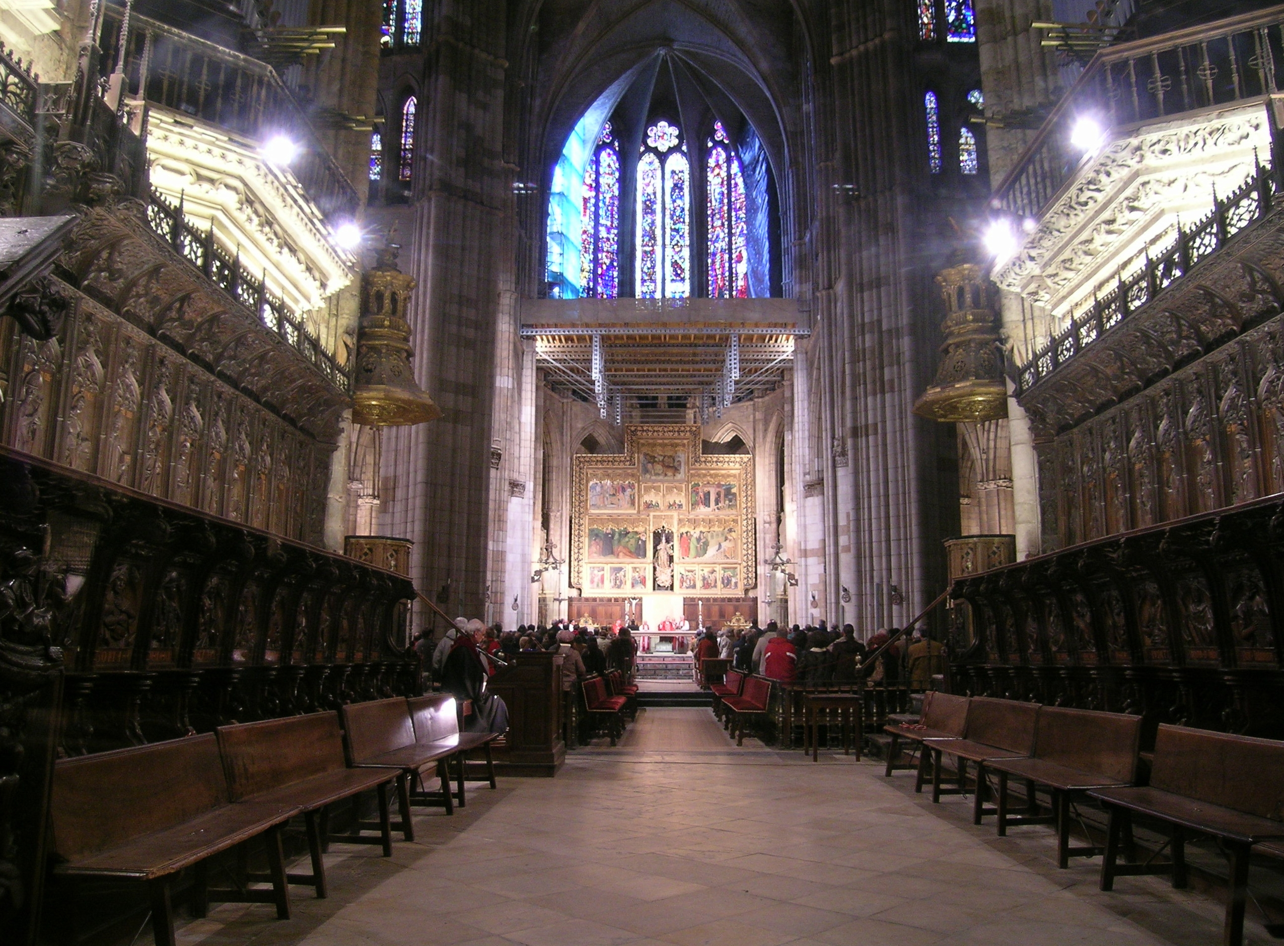 inside the cathedral of Leon, Spain